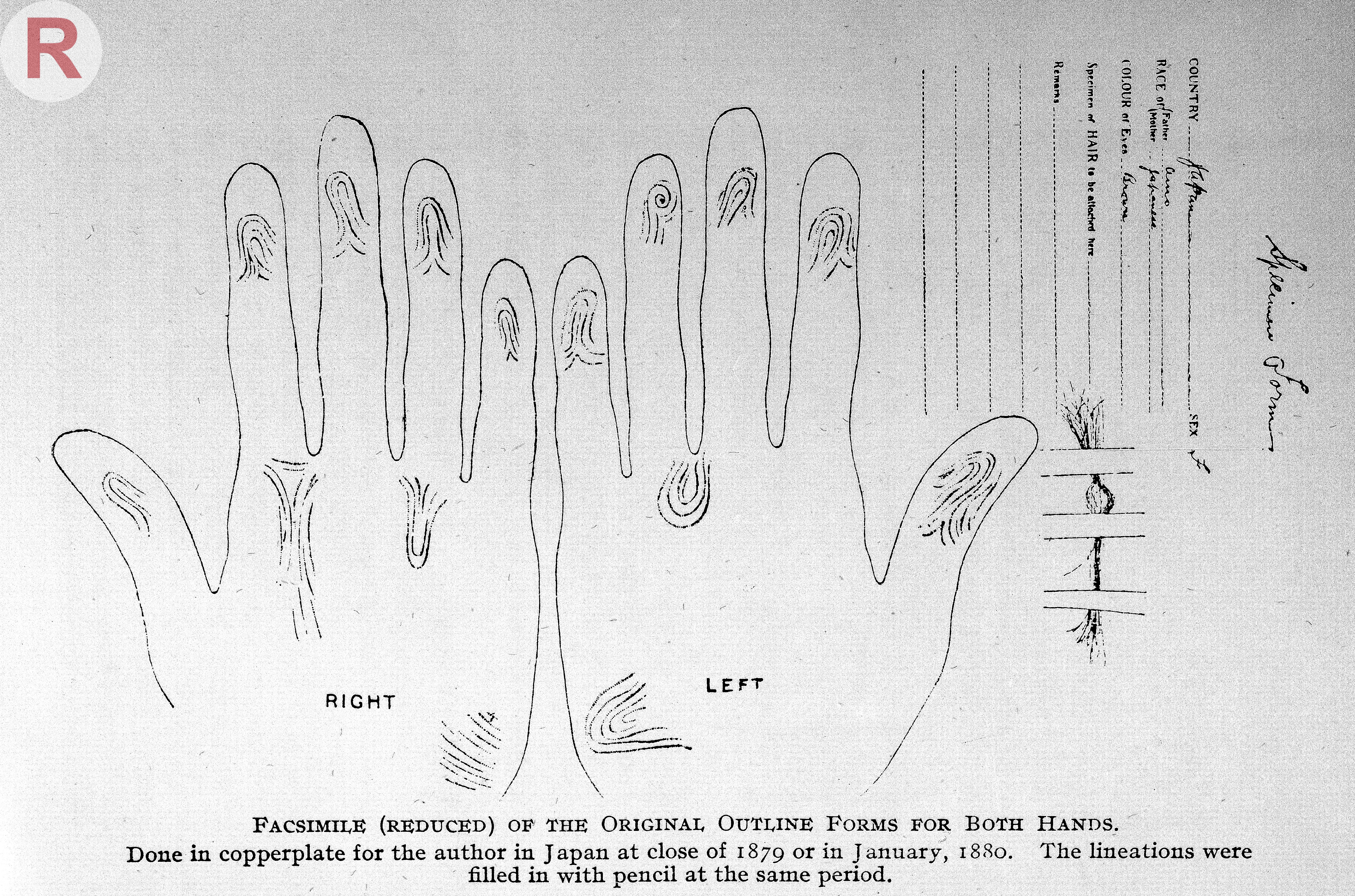 Faulds, Henry Dactylography or the study of finger-prints. Imprint Halifax : Milner, [1912?] figure opposite page 21, facsimile of outline of two palms. General Collections Keywords: finger prints